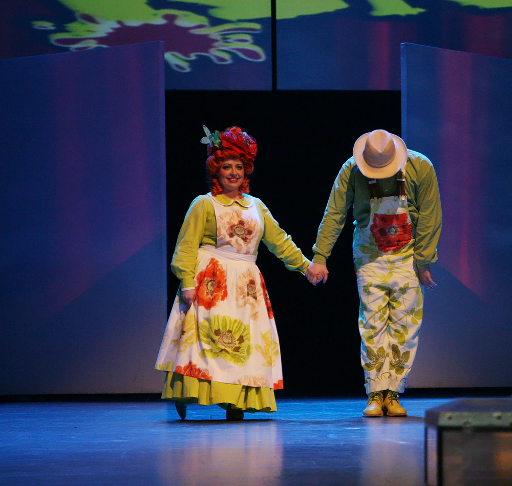 Izabela Bujniewicz as Multiflora (with Damian Aleksander as Lewkonik) in the musical "The Academy of Professor Klex", Roma Musical Theatre in Warsaw, 19 January 2008.